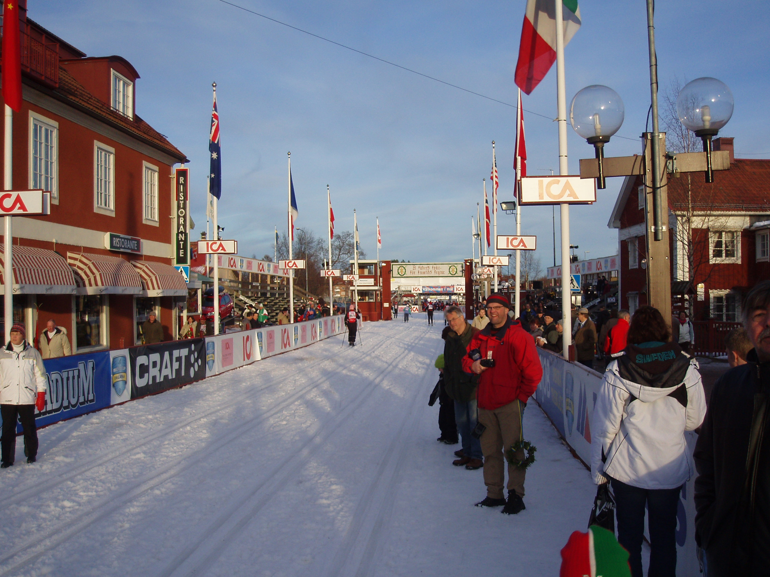 Goal area of Vasaloppet in Mora, Sweden